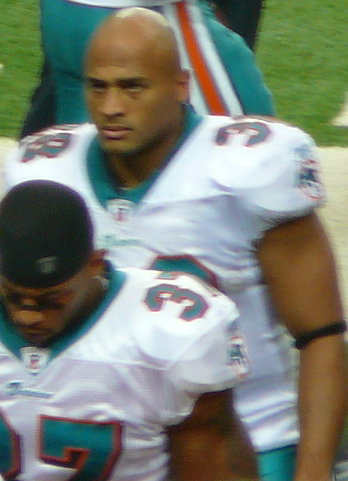 If used somewhere other than Wikipedia, Nelson, by name.